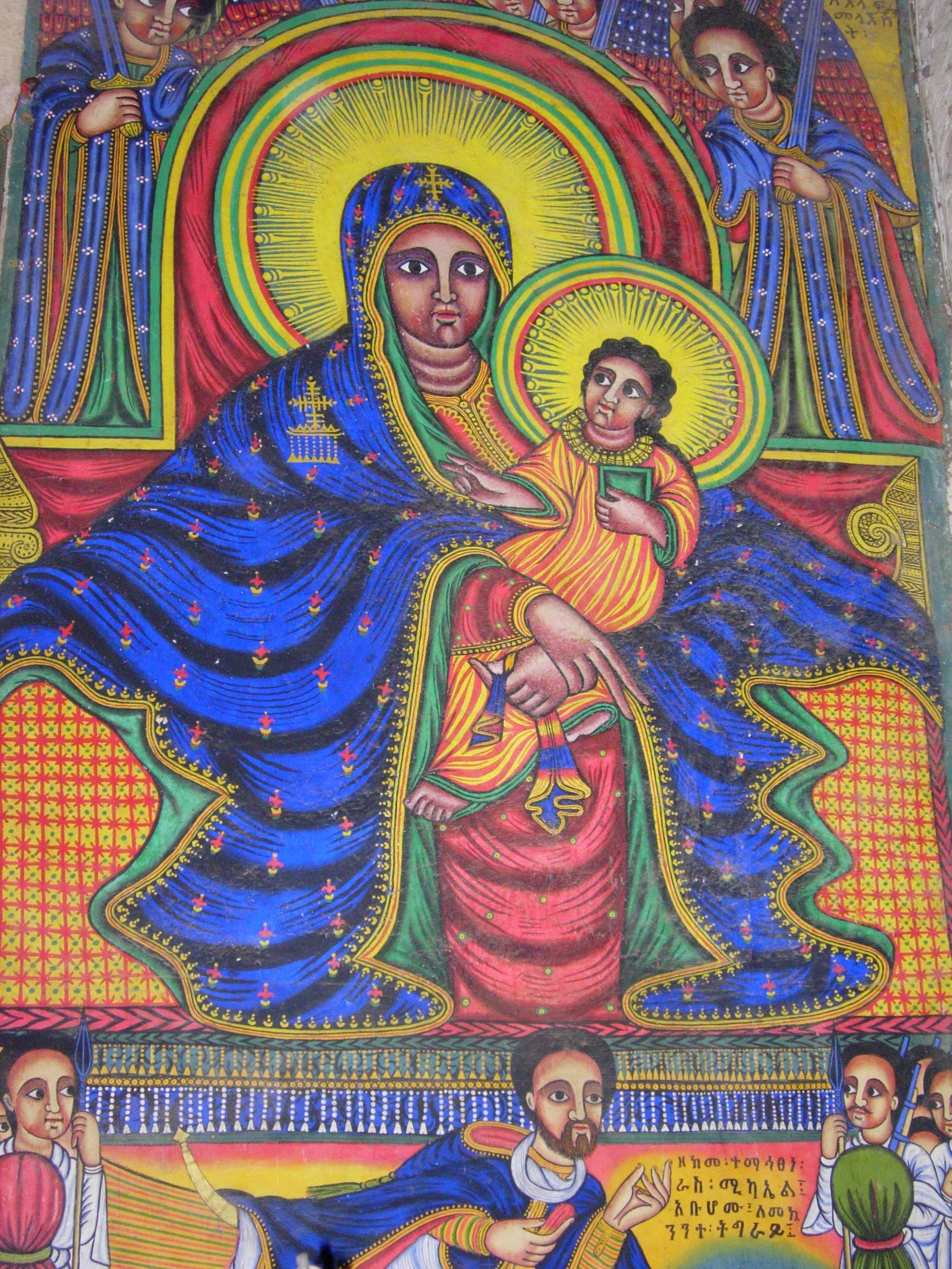 A fresco of a black Madonna and Jesus in Axum Cathedral, Ethiopia